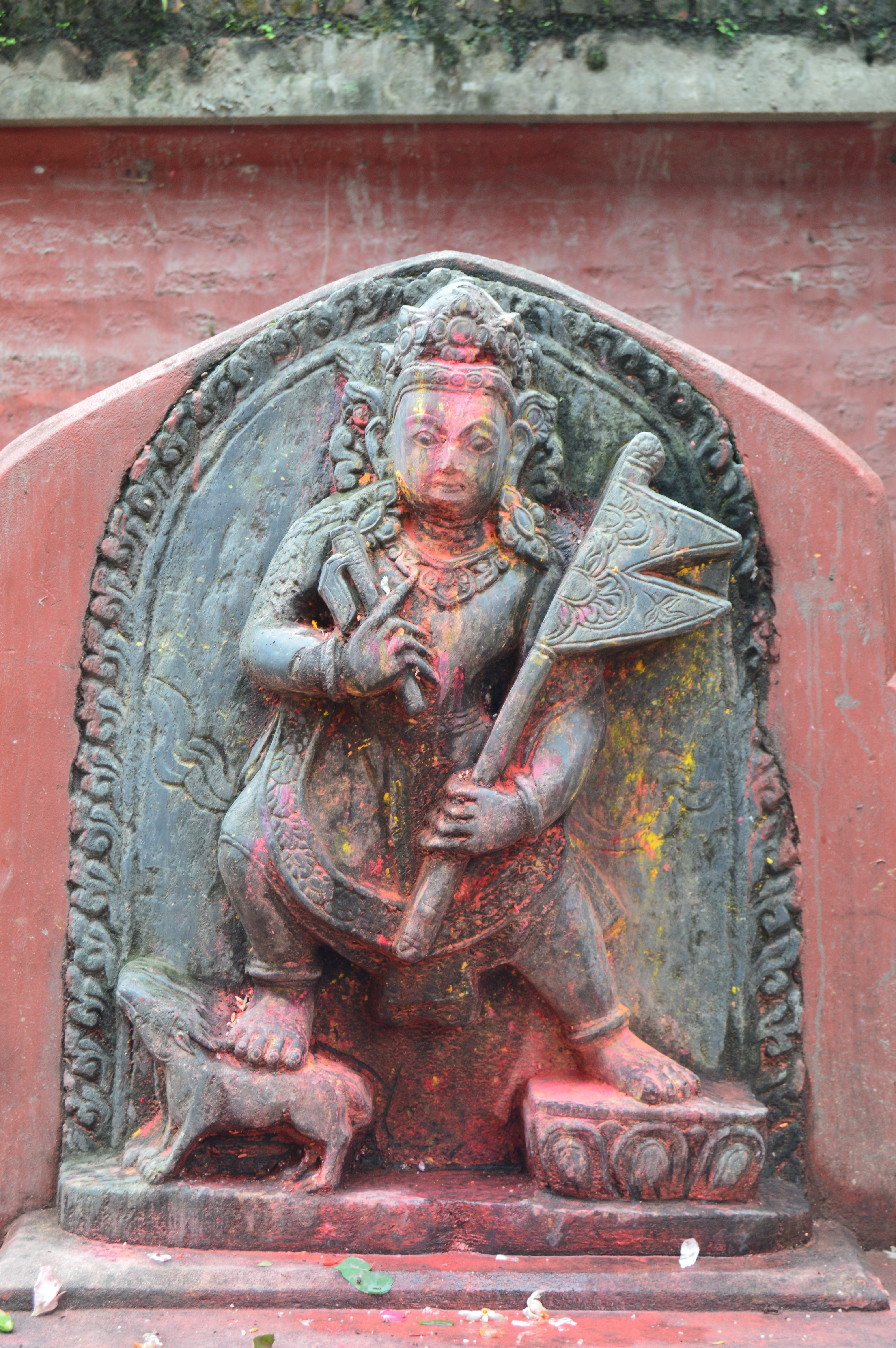 Statue at Gokarneshwor Mahadev Temple Premises, Gokarna, Kathmandu